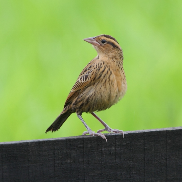 Red-breasted Blackbird (female) at Apiacás - MT - Brazil